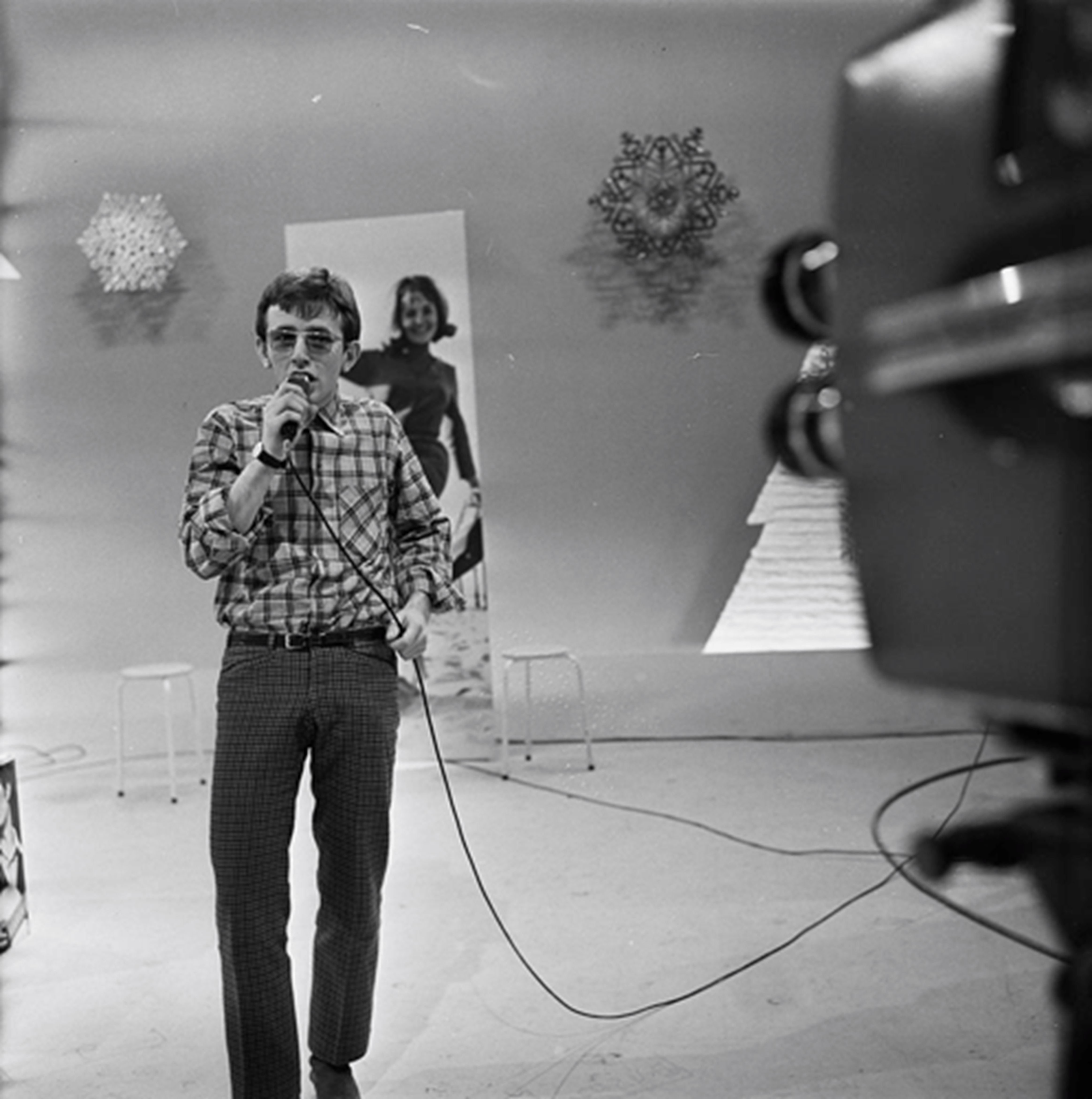 Ronny Schutte (Ronnie) performing in Dutch TV programme Fanclub, 11 Dec. 1965